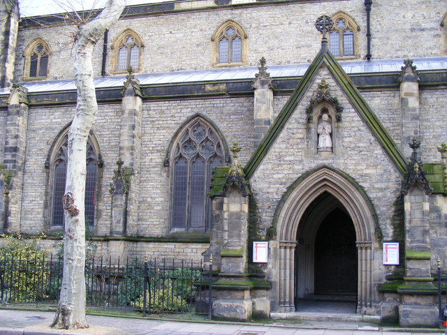 Porch and clerestory of the parish church of St Stephen with St John, Rochester Row, Westminster, London SW1, England